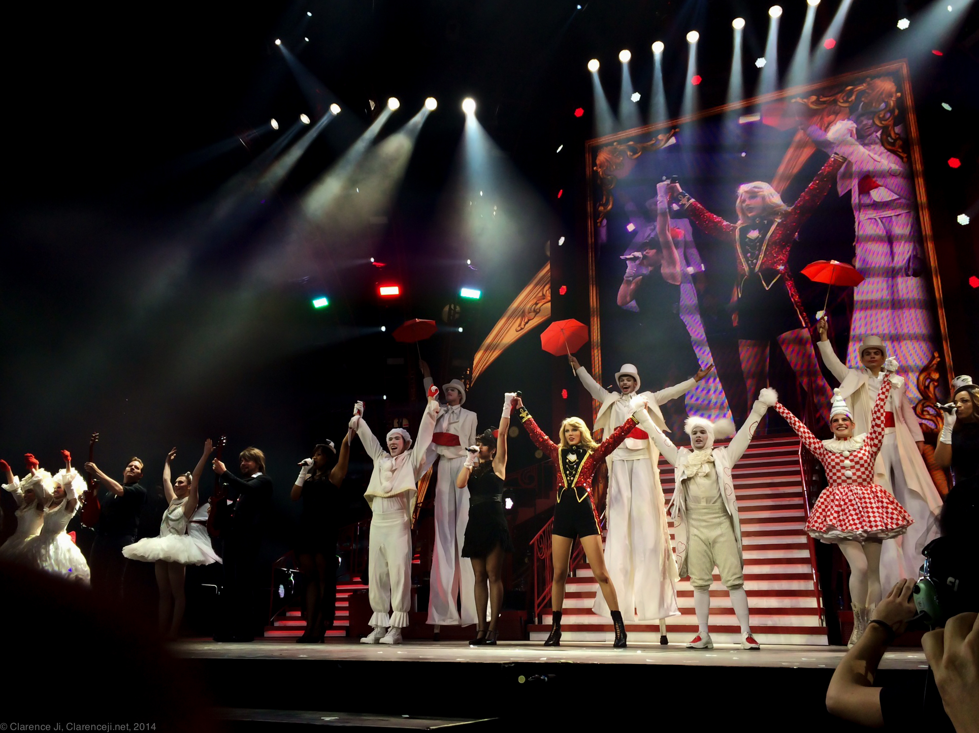 Red Tour London